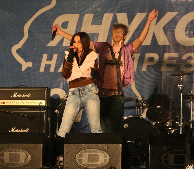 Ukrainian pop group “Para normalnykh” (2Normal) «Пара нормальных» play at Yanukovic for President rally in Dnipropetrovsk, Karla Marksa Prospect.